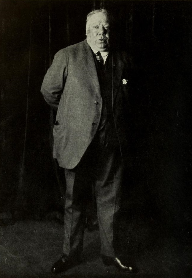 Portrait of John Bunny